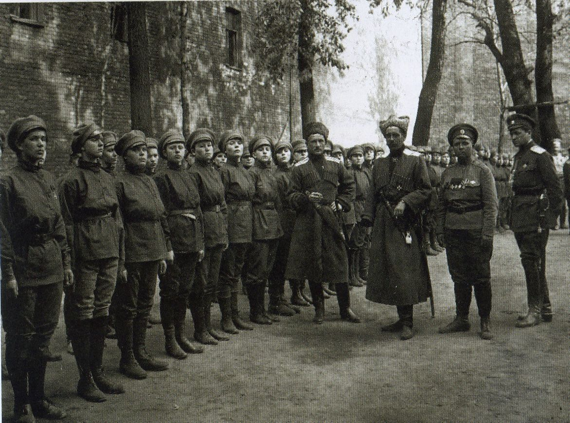 Volonteer "Women 1st Death Unit" of Russian Army of Mariya Bochkareva (Yashka). Petrograd. Summer 1917